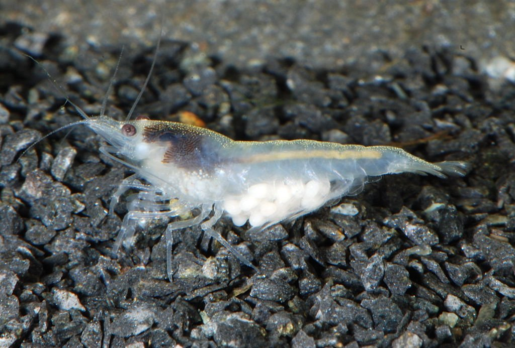 Neocaridina cf. zhangjiajiensis sp. „white pearl“ is a freshwater shrimp and very easy to keep and breed.